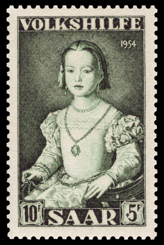 Volkshilfe, additional social fees